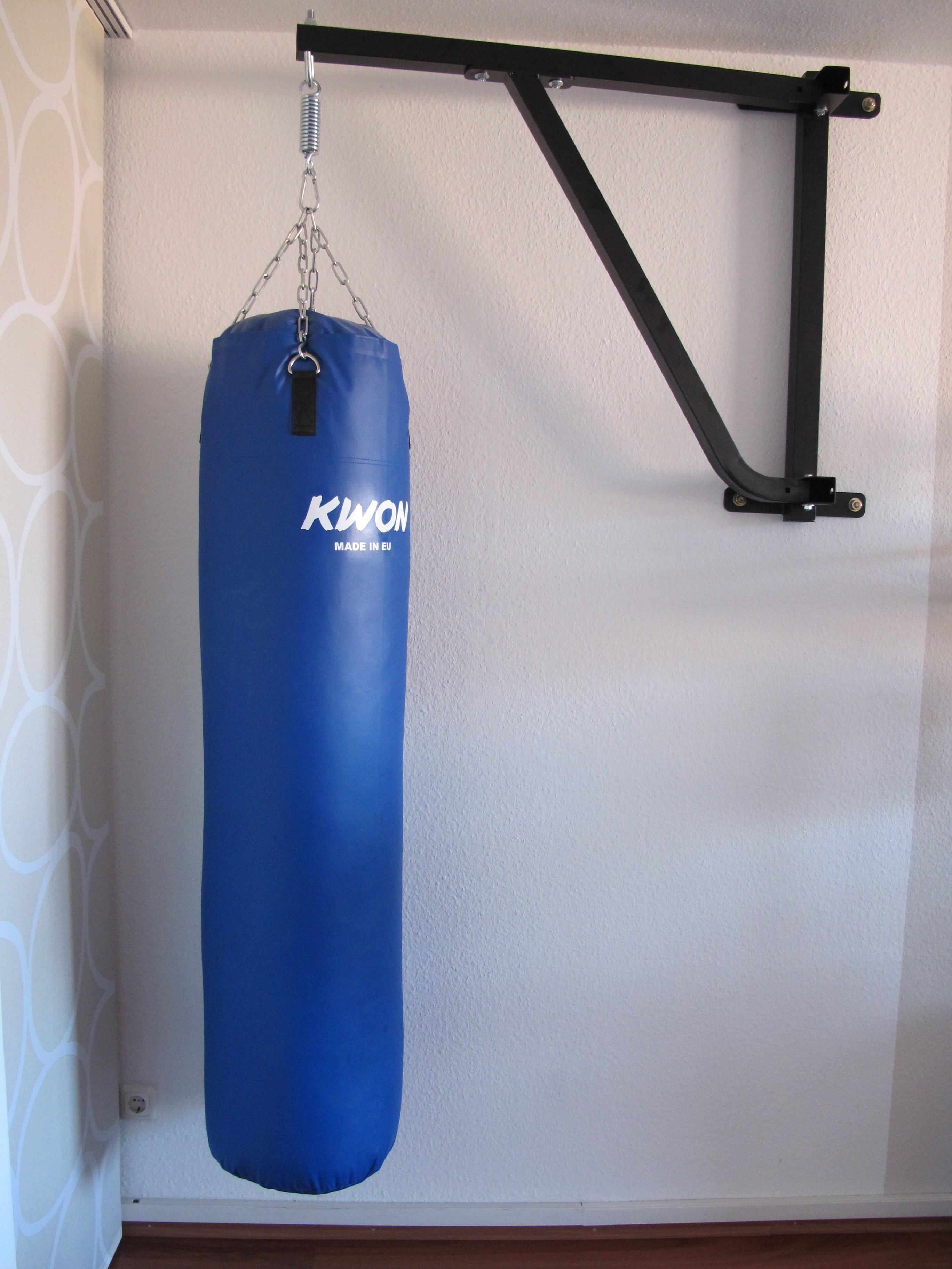 Punching bag with a foldable wall hanging (folded in)